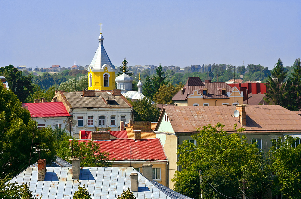 Intercession of the Theotokos church in Lutsk